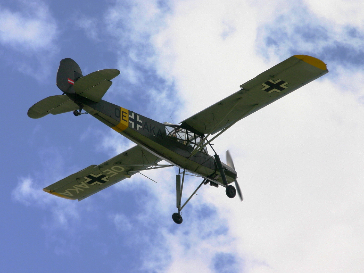 Fieseler Fi 156 Storch at the airshow in Kirchheim, Upper Austria. This original plane was built in 1942.